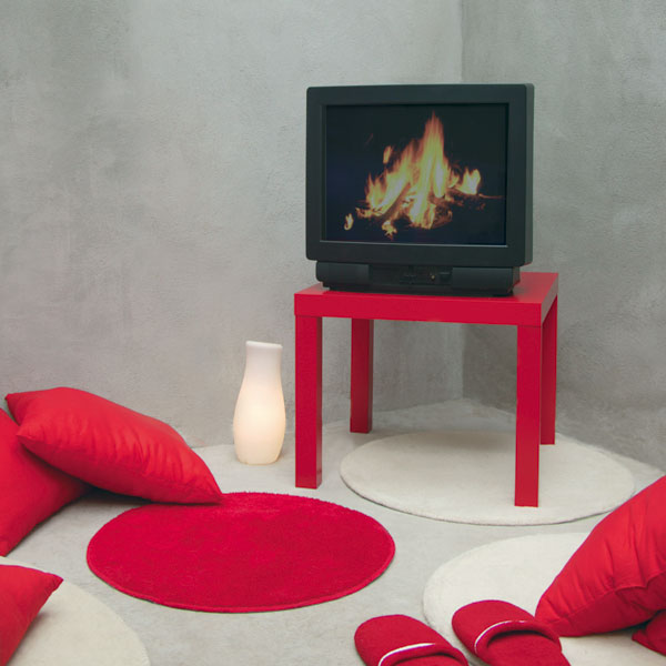 Kinga Dunikowska, Knocking On Heaven's Door, 2004